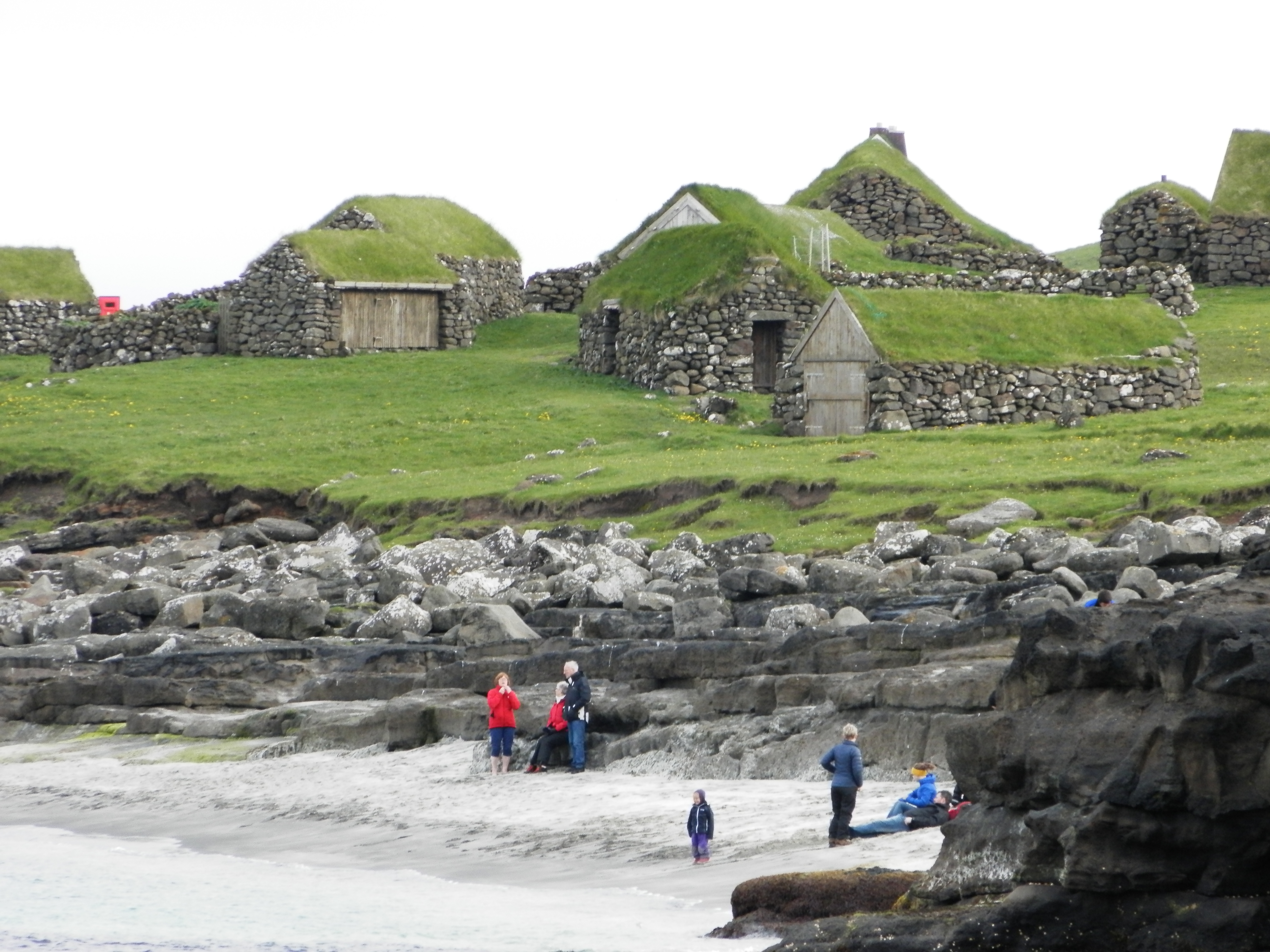 Koltur is one of the smallest islands of the Faroe Islands, the smallest of the inhabited islands. The population as of 2014 is 1 person. The island covers 2,31 km². Føroyskt: Koltur is one of the smallest islands of the Faroe Islands, the smallest of the inhabited islands. The population as of 2014 is 1 person. The island covers 2,31 km². The neighbourhood "Heimi í Húsi" is the oldest part of the island. The houses are not inhabited any longer, they have been renovated since 2009. The houses are made of stones and wood and have turf roof.